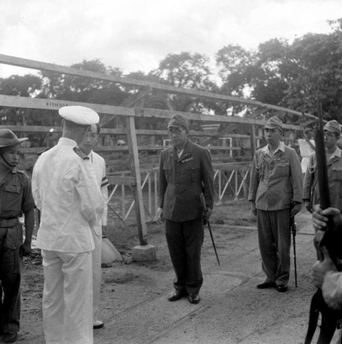 Japanese officer in Sai Gon 1945